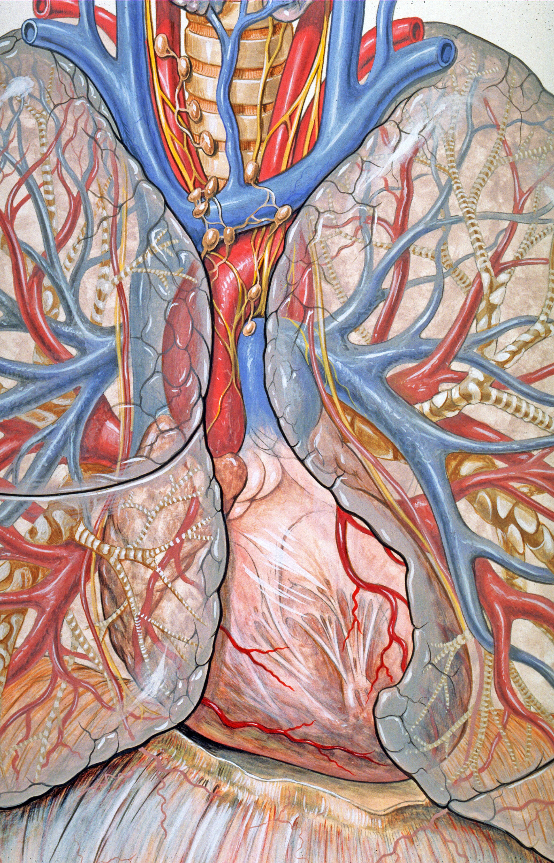 Anatomy of the mediastinum (the central chest and heart area).